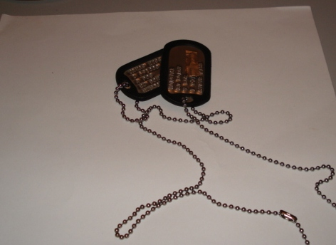 Hungarian version of doggy tags